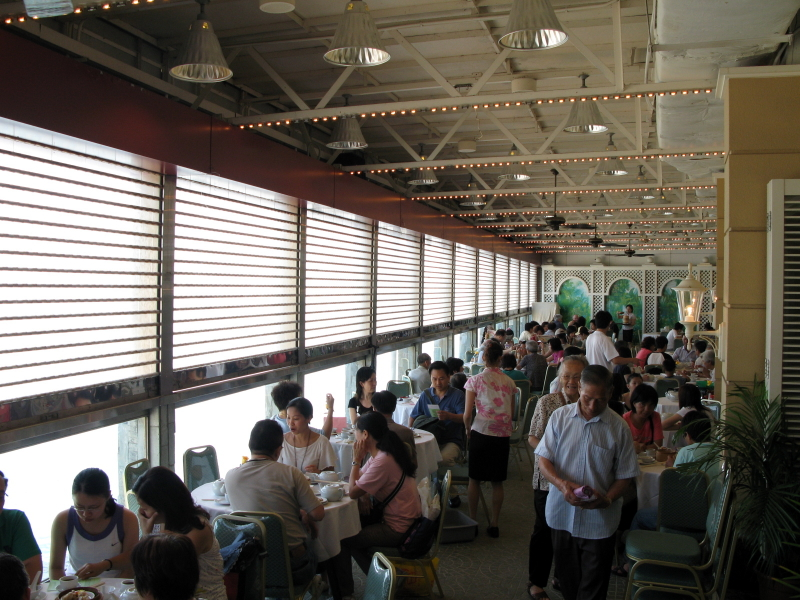 Cheung Chou Warwick Hotel Interoir